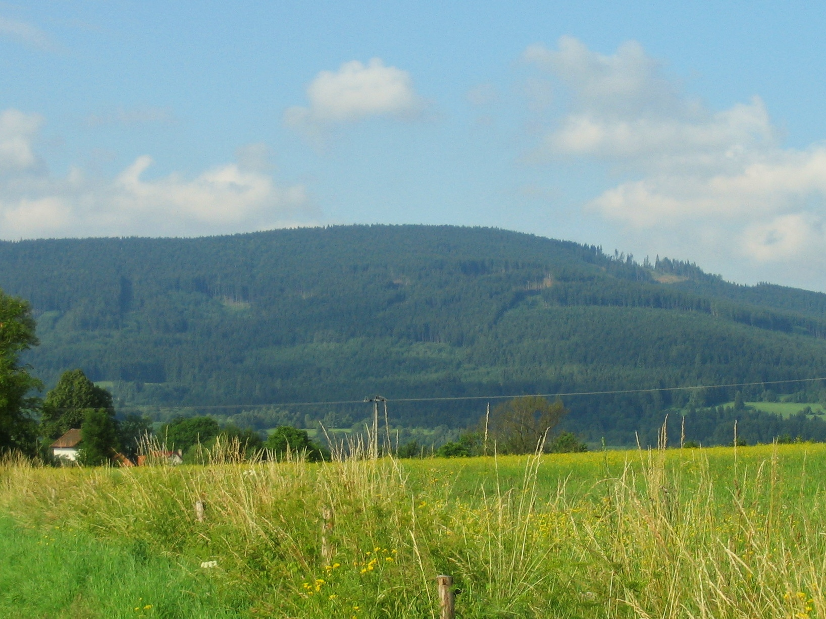 View of Ždánov (1064 m) from Strašín (from the north-east)